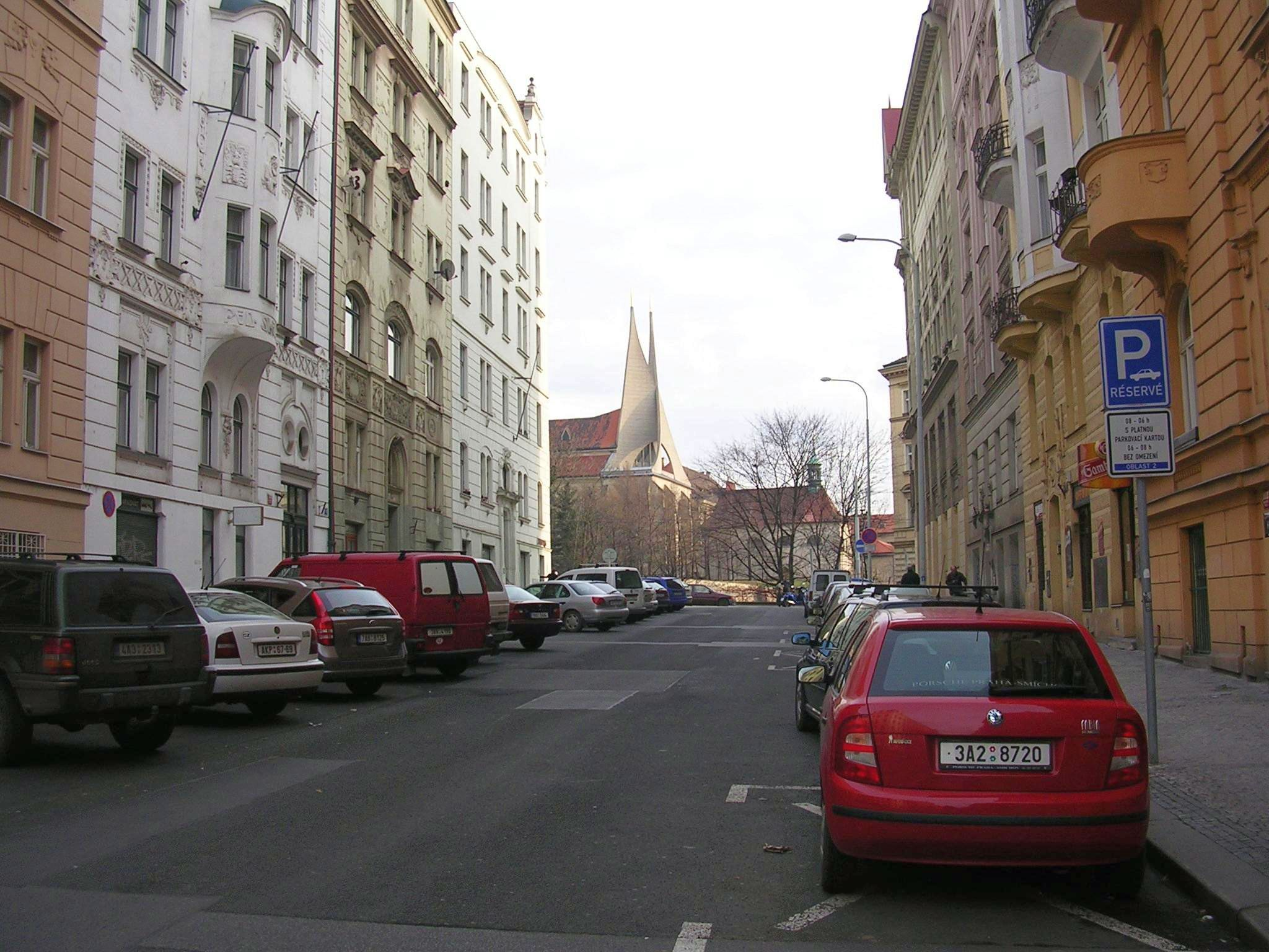 New Town, Prague, the Czech Republic.